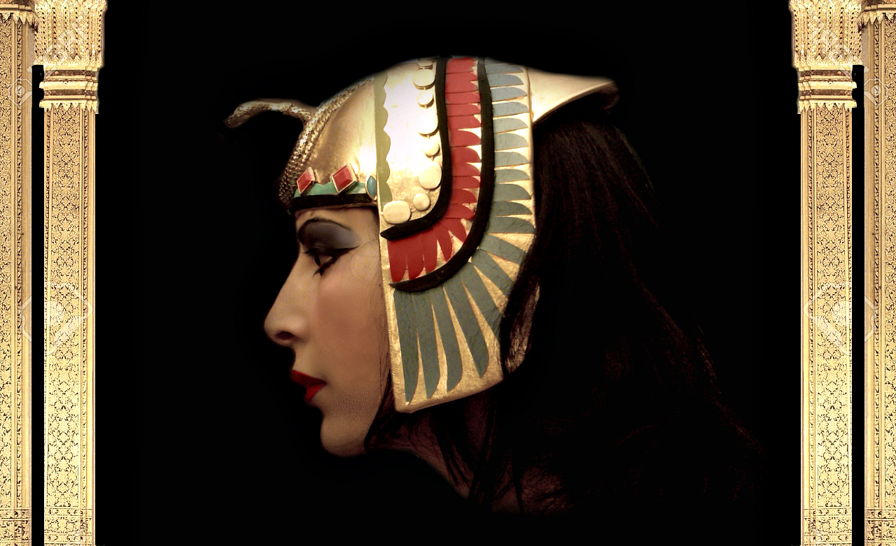 Layla Taj portrays Cleopatra VII.